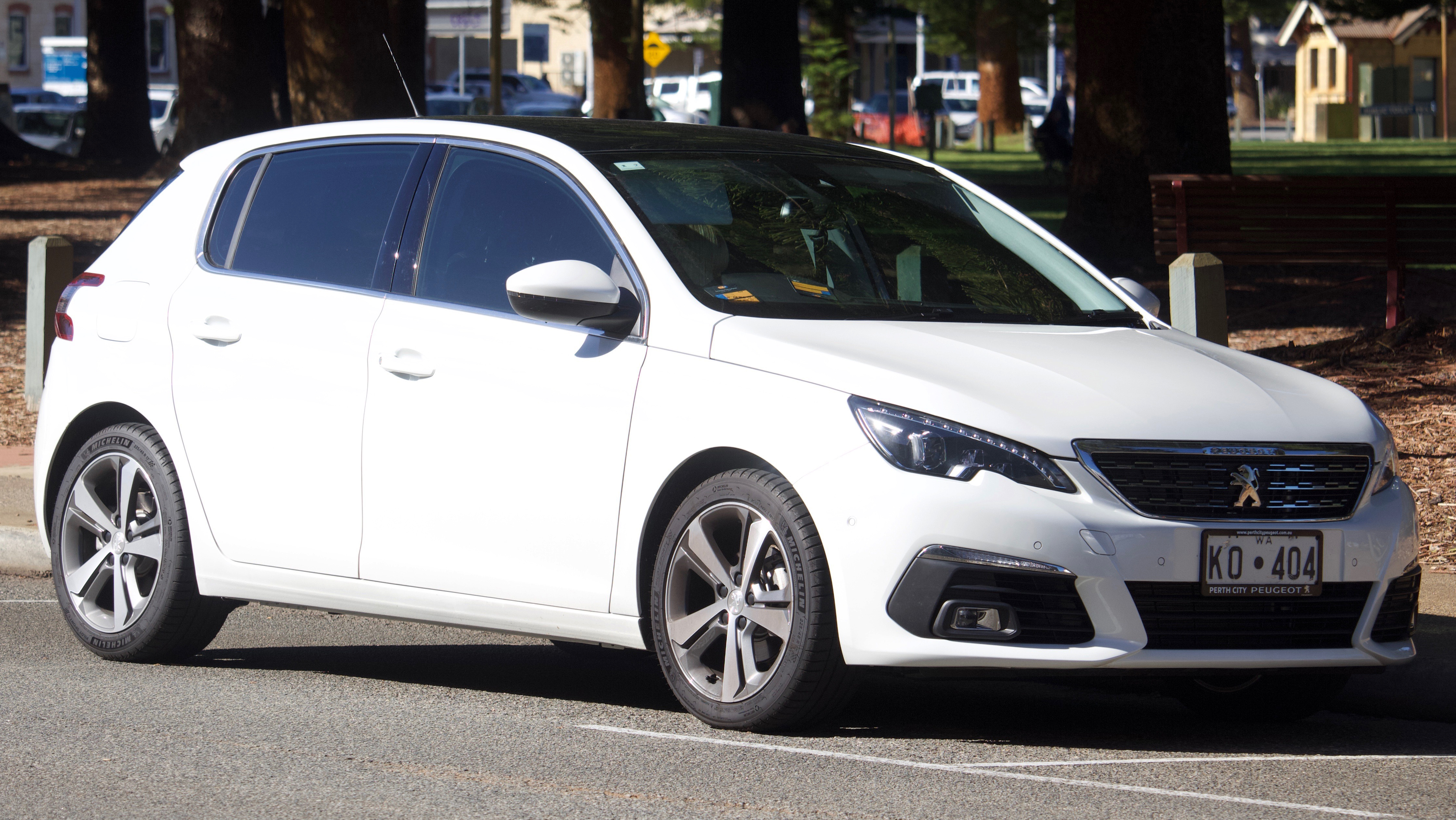 2018 Peugeot 308 (T9 MY18) Allure hatchback. Photographed in Fremantle, Western Australia, Australia.